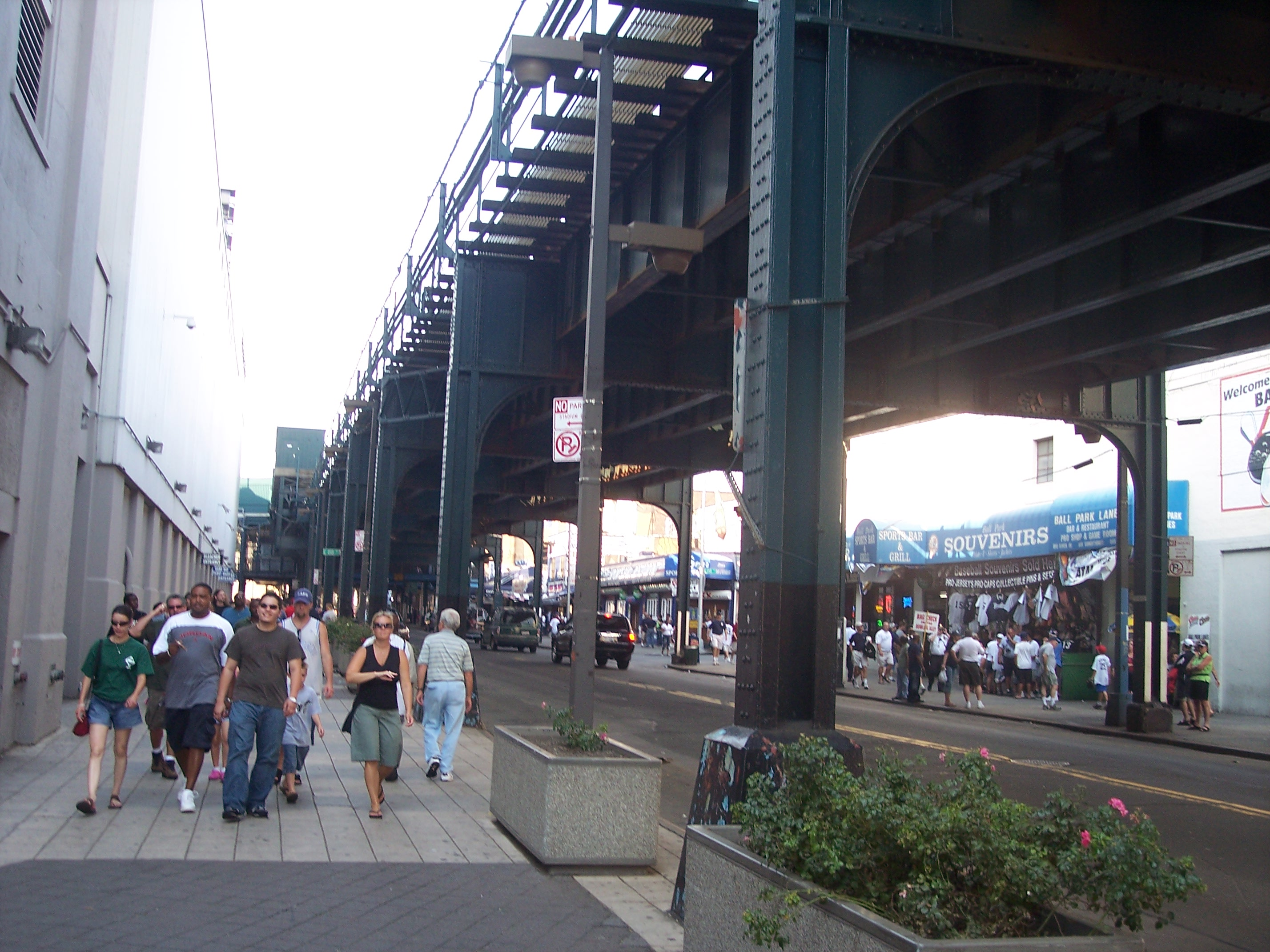 Source: I, the Silent Wind of Doom took the picture at Yankee Stadium 03:58, 14 November 2006 . . Silent Wind of Doom . .2586 x 2142 (1,164,305 bytes)